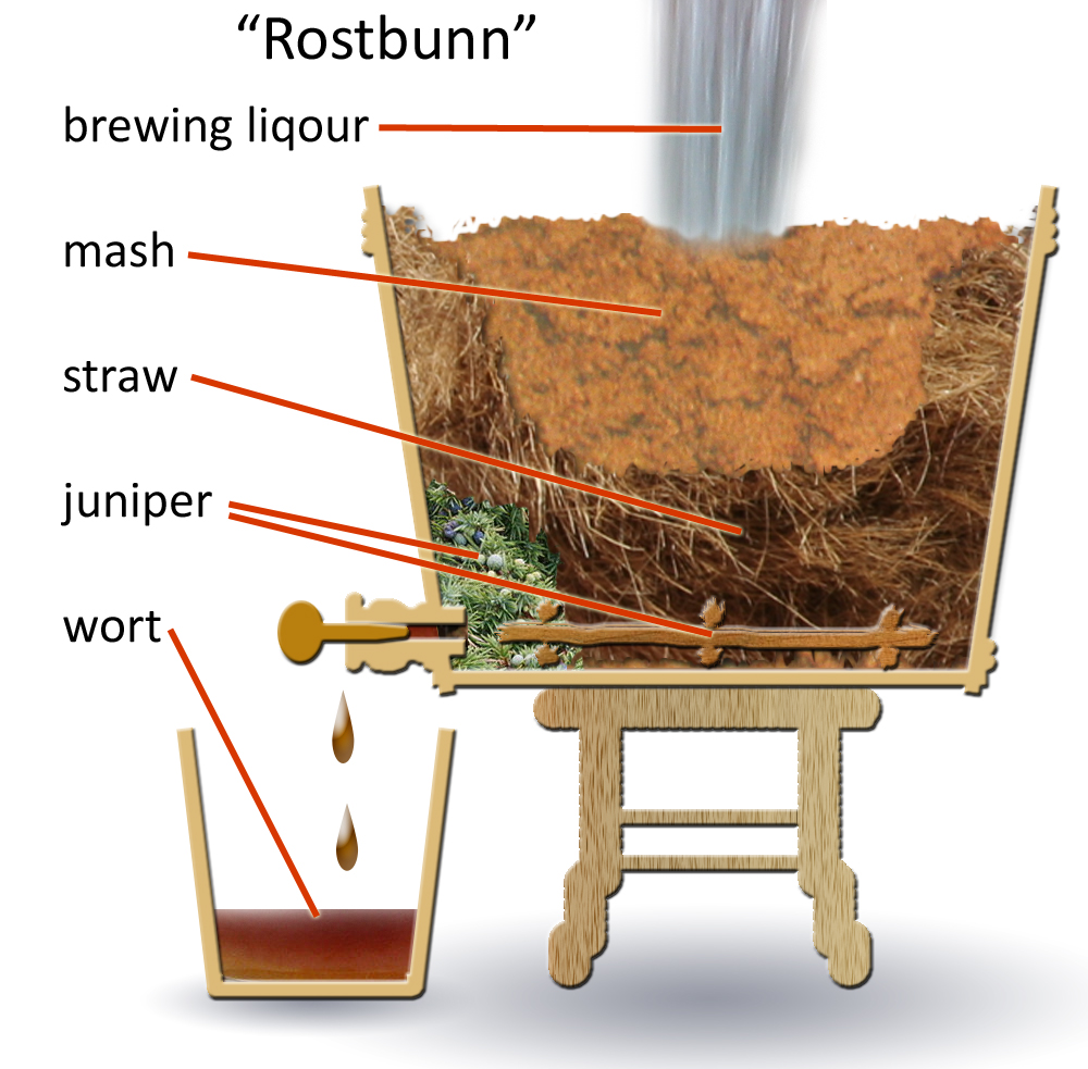 A rostbunn for brewing traditional Gotlandsdricka.